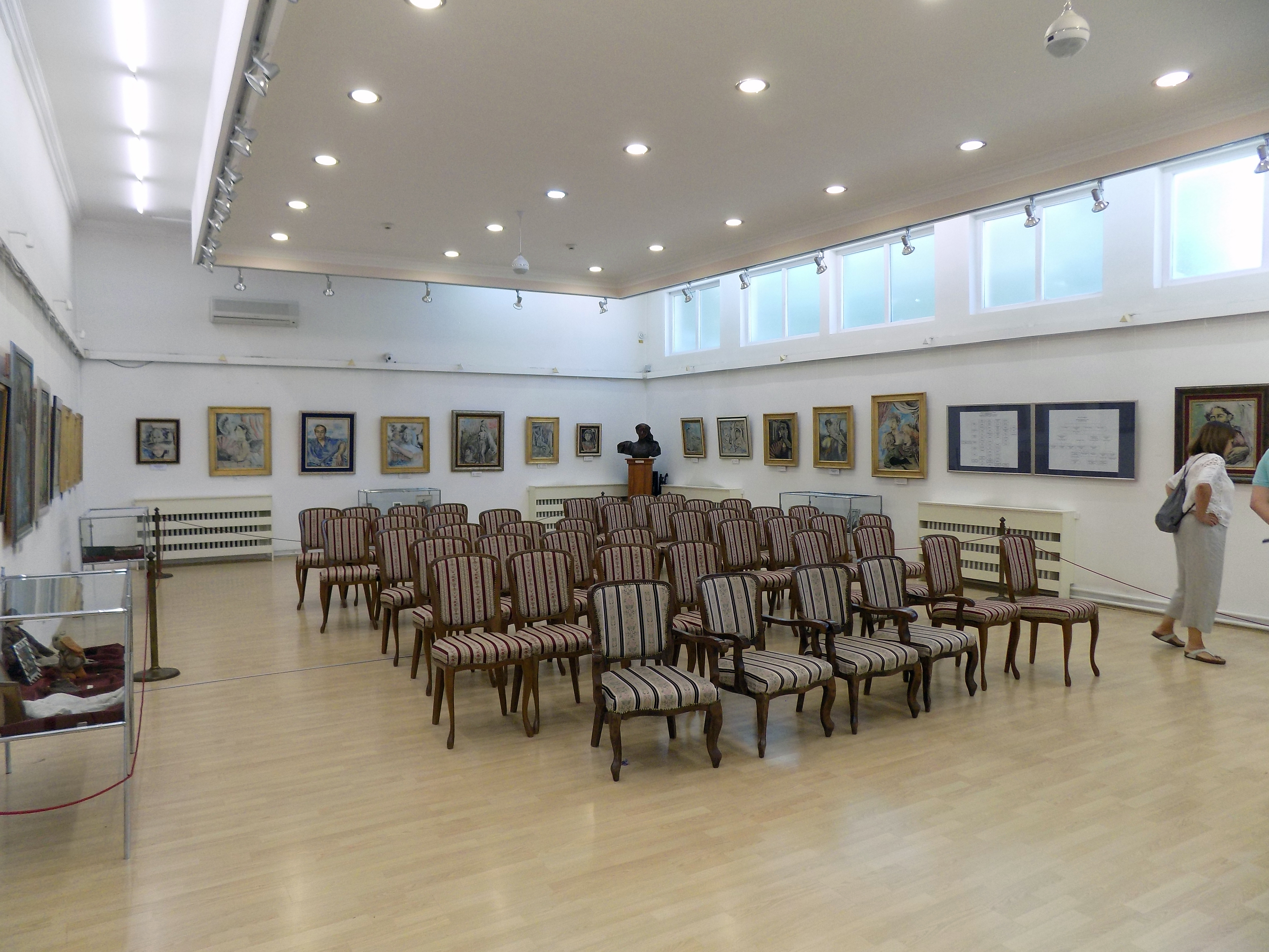 Milena Pavlović-Barili Gallery (Milena's home) - Exhibition hall